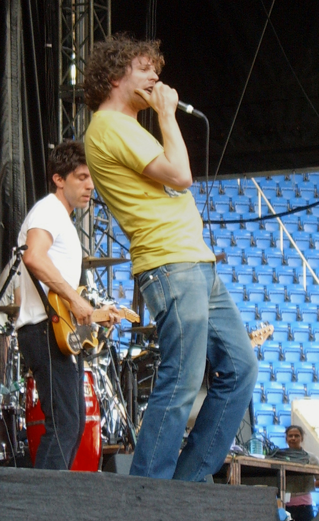 !!!'s Nic Offer, supporting the Red Hot Chili Peppers in Reading